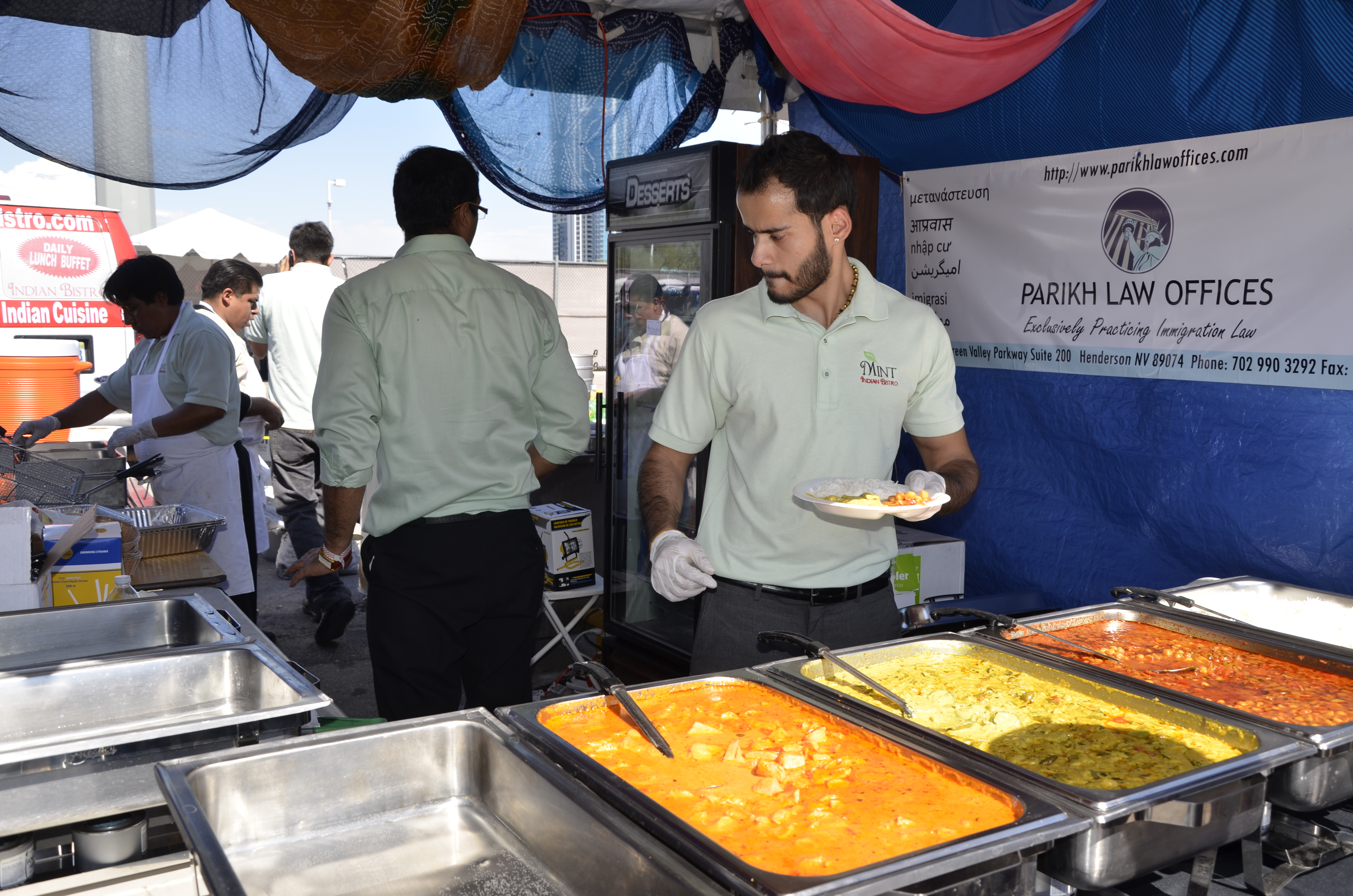 2011 Asian Food Festival & Trade Show